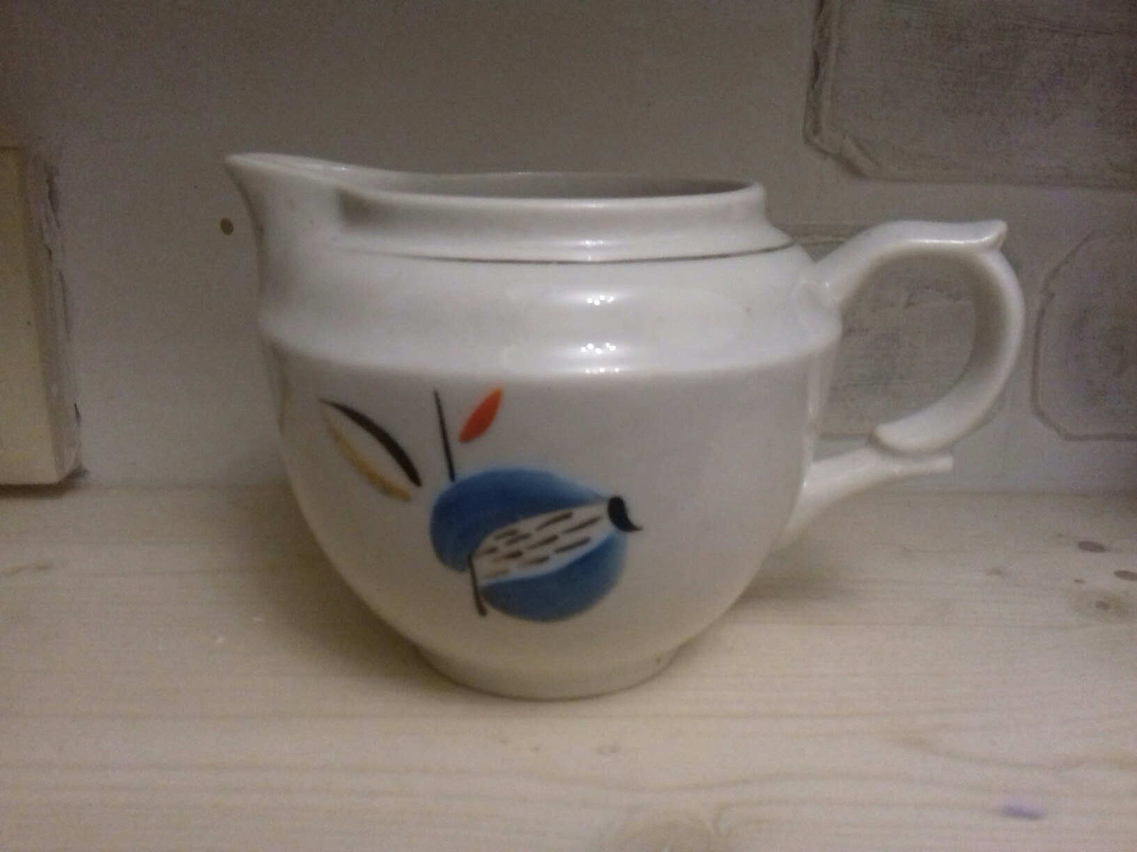 The Soviet sauce-dresser